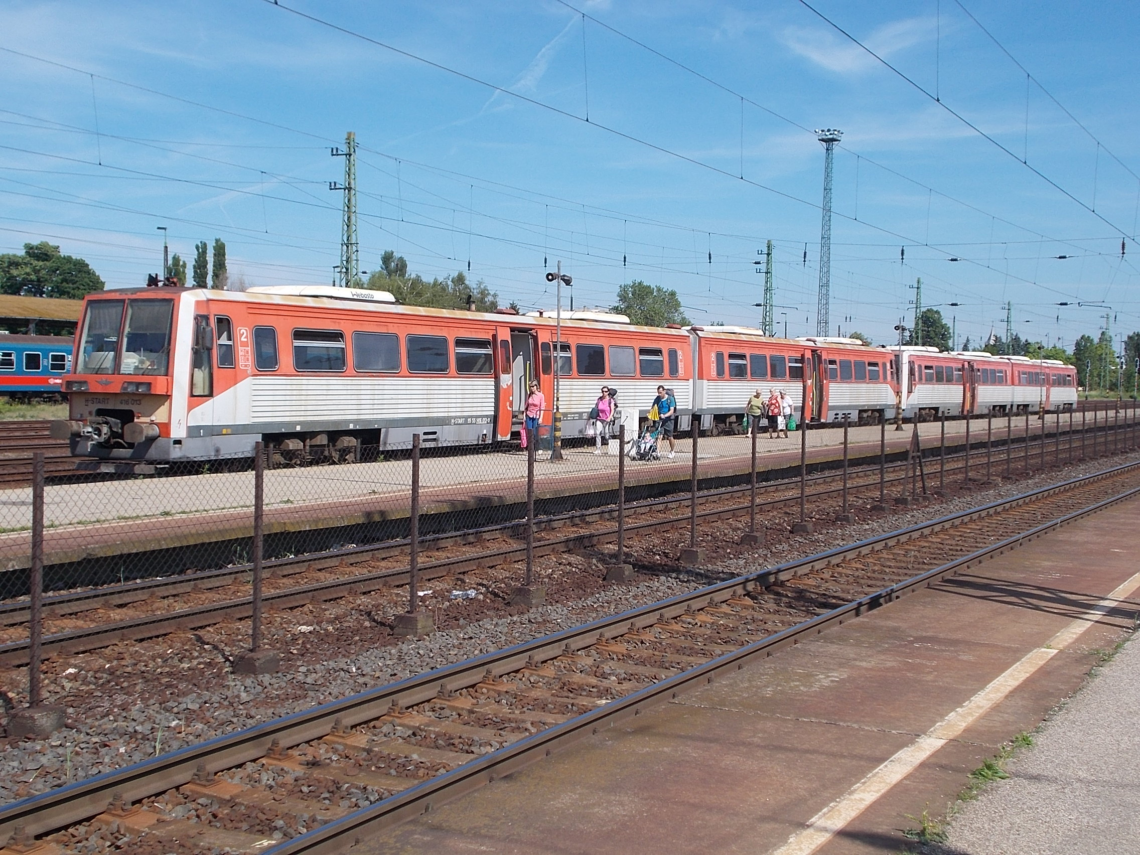 Hatvan railway station. - Hatvan, Heves County, Hungary.